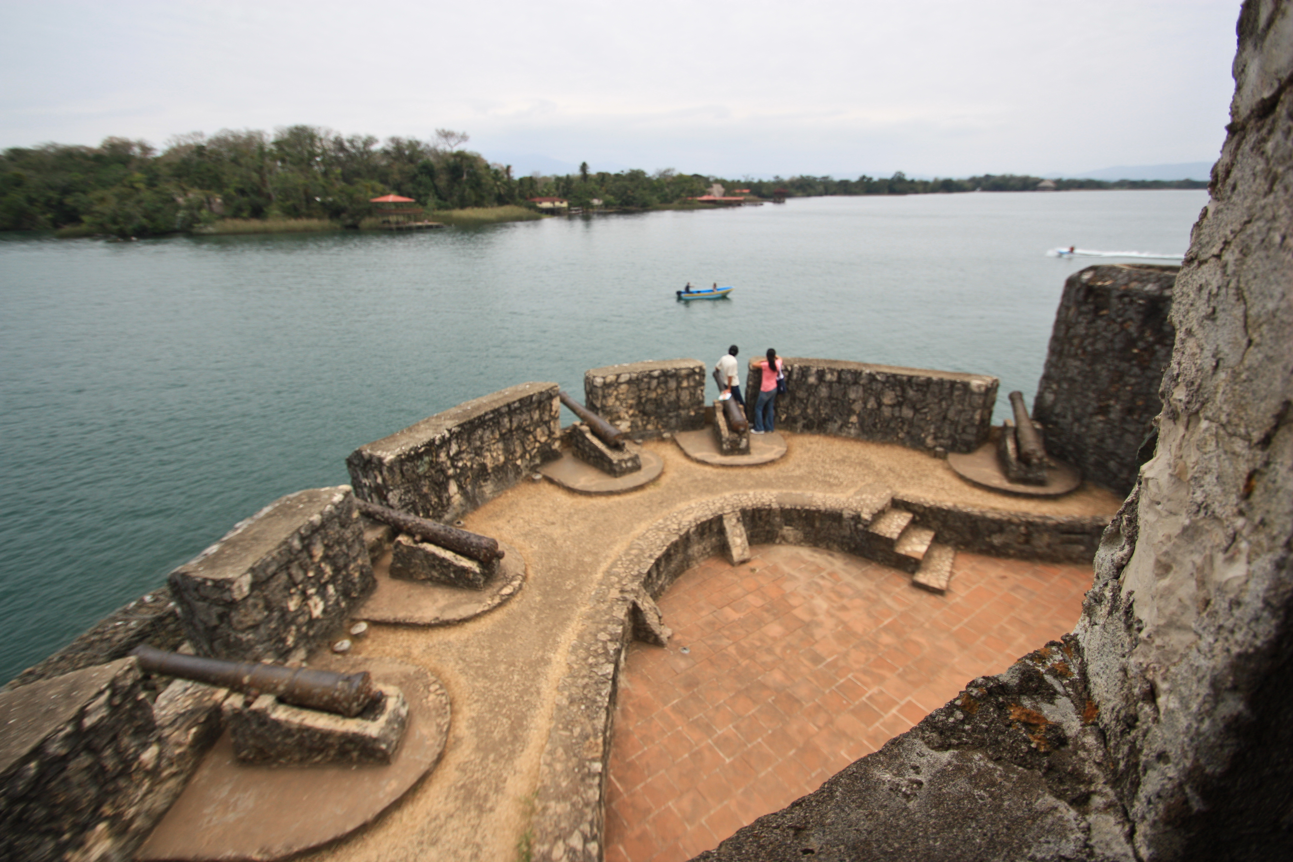 Castillo de San Felipe de Lara, Lake Izabal,Guatemala.